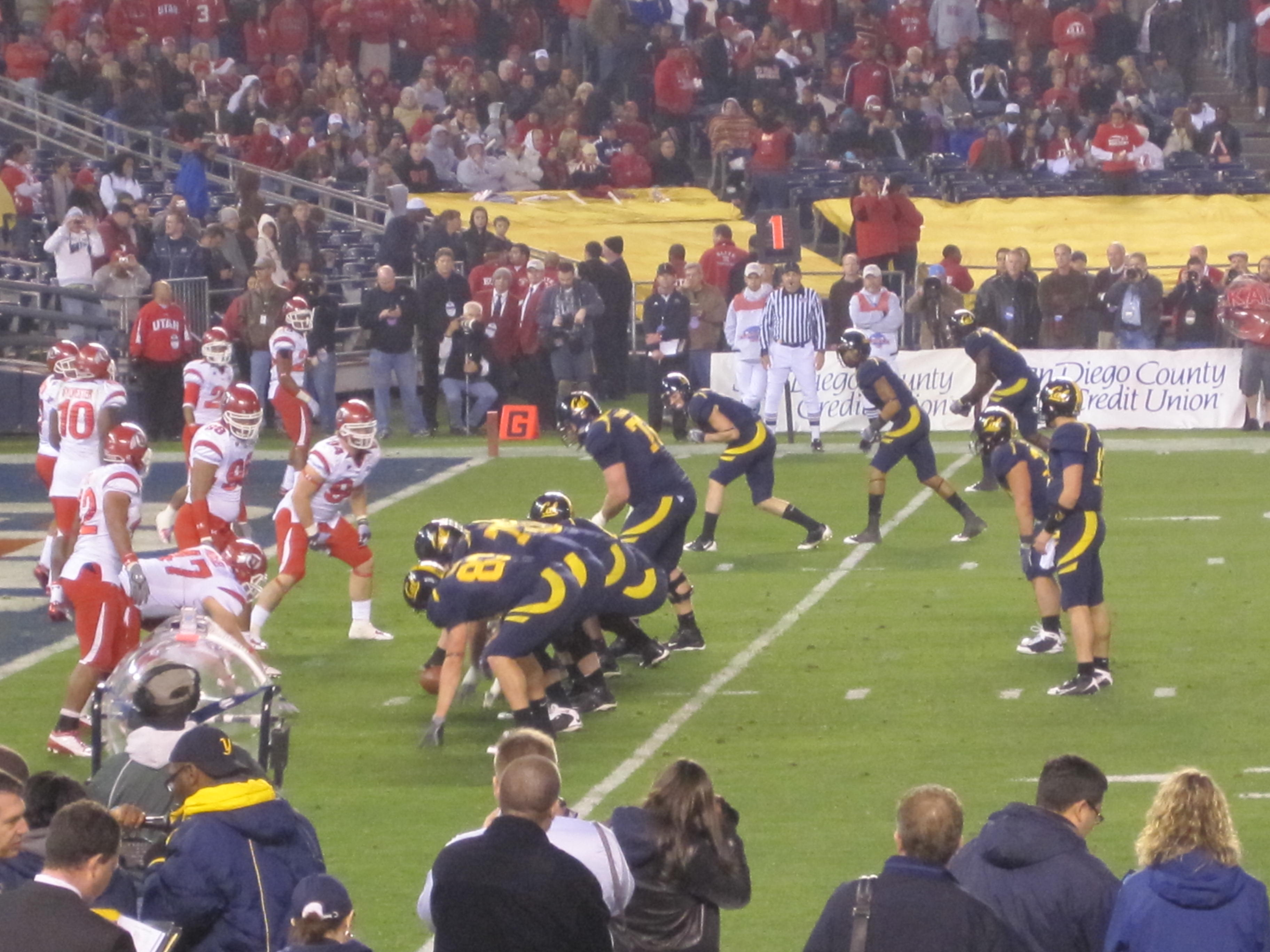 The California Golden Bears attempt a 2 point conversion in the fourth quarter during the 2009 Poinsettia Bowl against the Utah Utes, which failed. The Utes won 37-27.